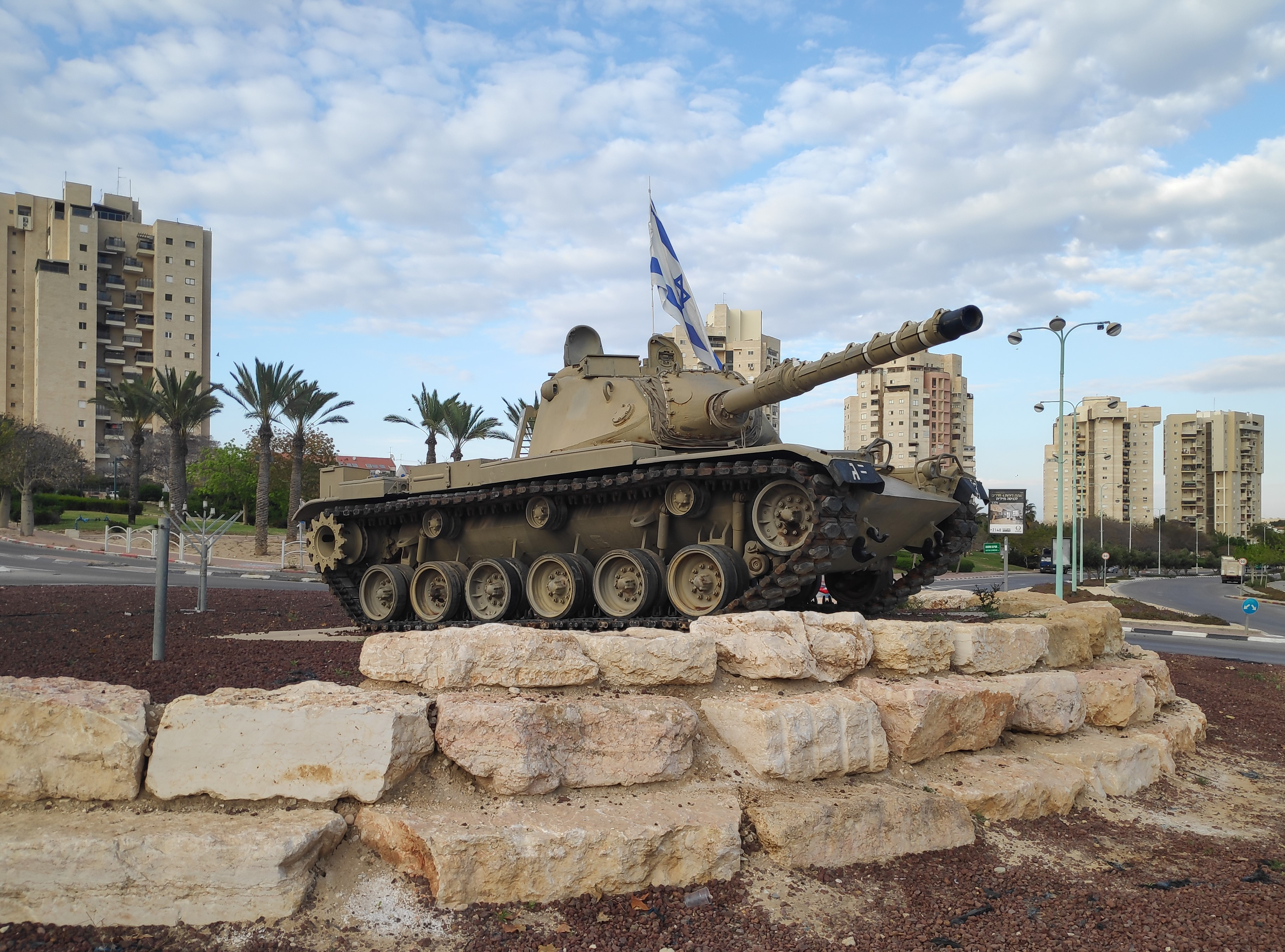 Hamofet (Tank) Square, April 2020